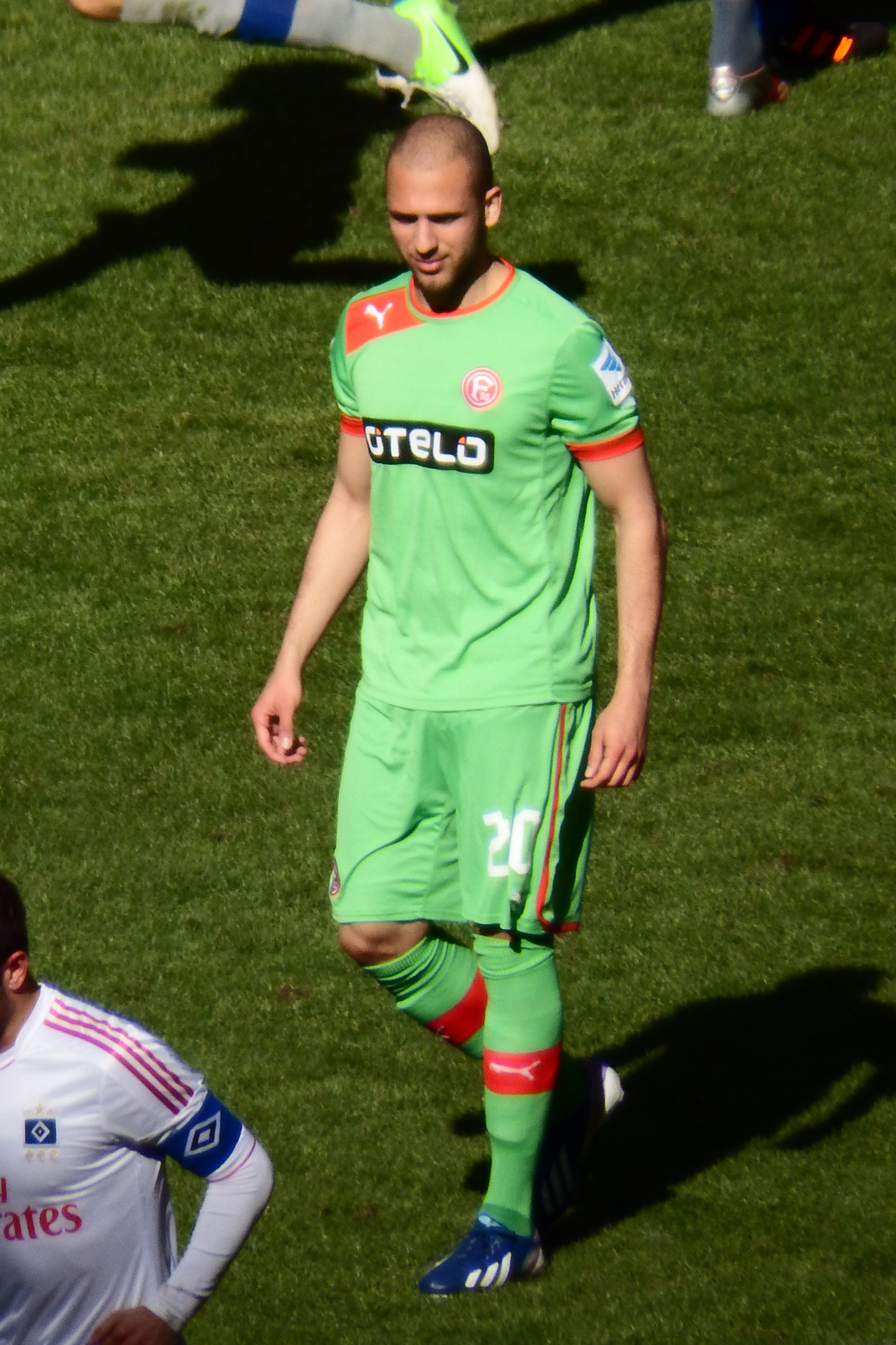 Dani Schahin as Player of Fortuna Düsseldorf